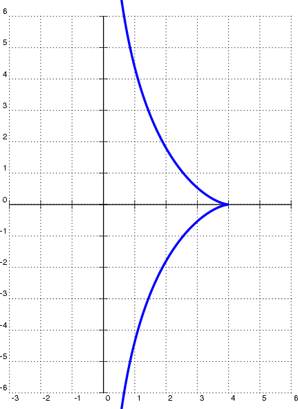 Plot of a tractrix